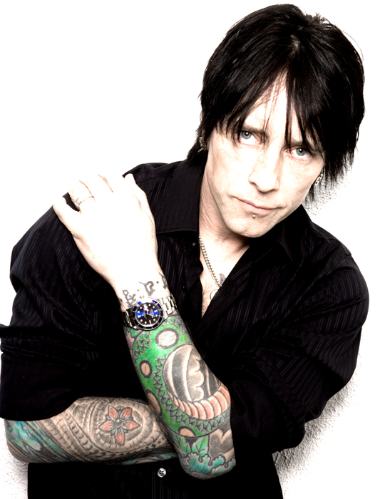 Billy Morrison, American rock guitarist